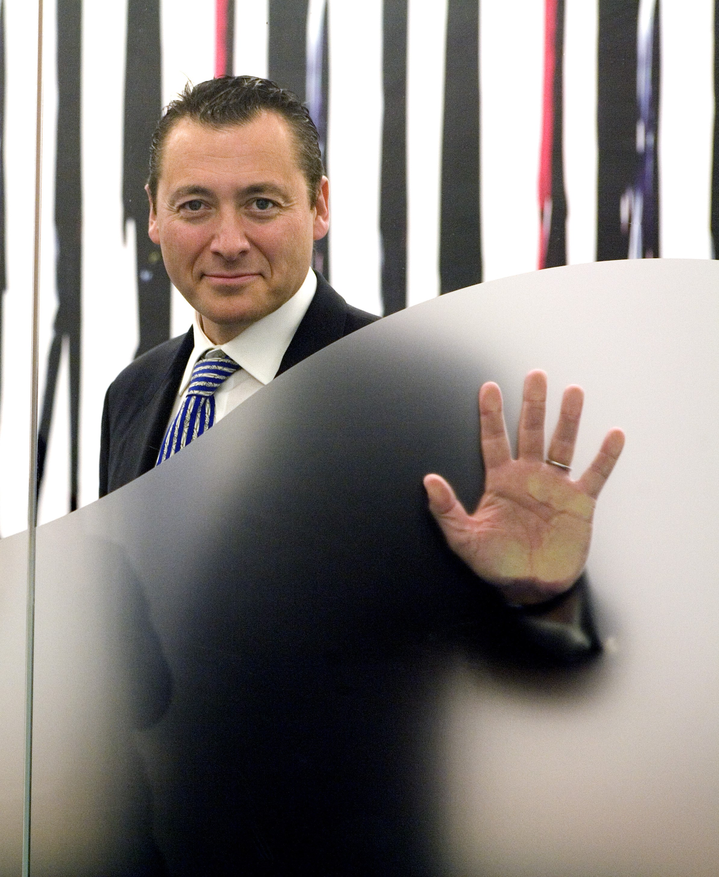 Photo of Serial Tech Entrepreneur Dan Wagner